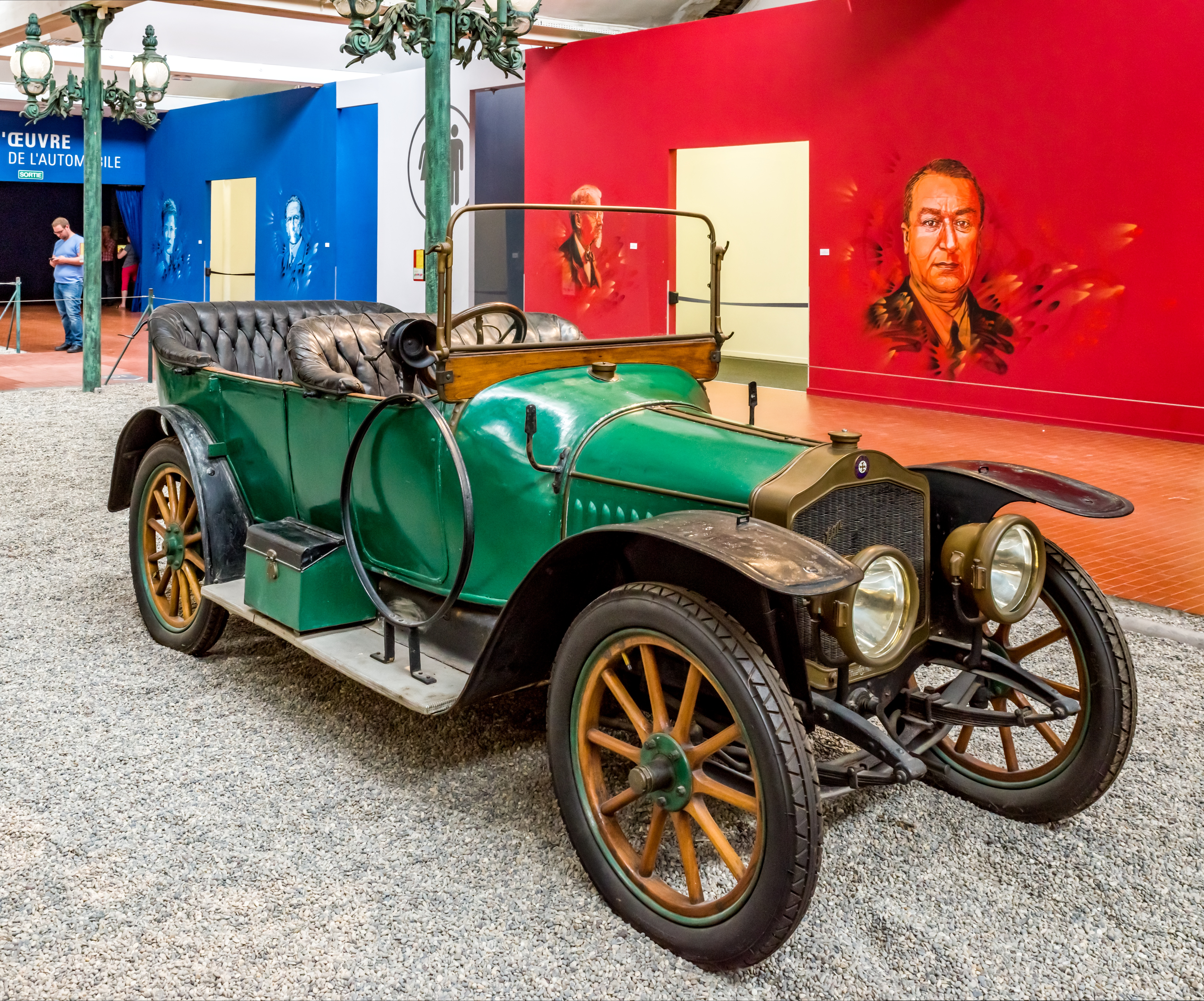 pictures from the Cité de l’Automobile – Musée National – Collection Schlump in Mulhouse, France ptictures from the 10. may 2018